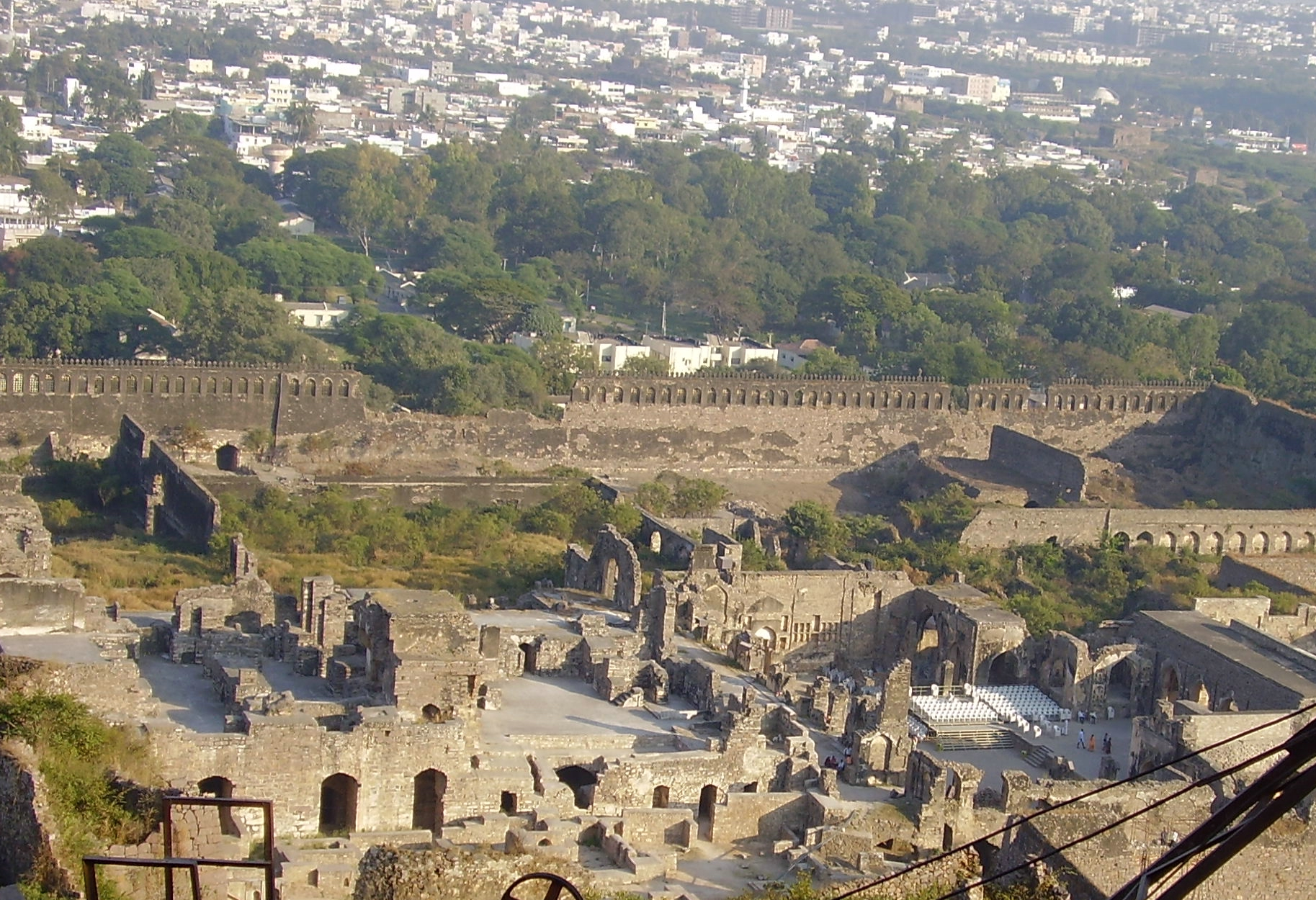 Golconda Fort overlooking Hyderabad, India.